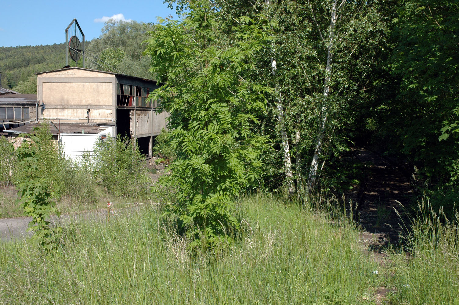 end of railway tracks of Tauberbischofsheim-Königheim railway at Dittwar station.